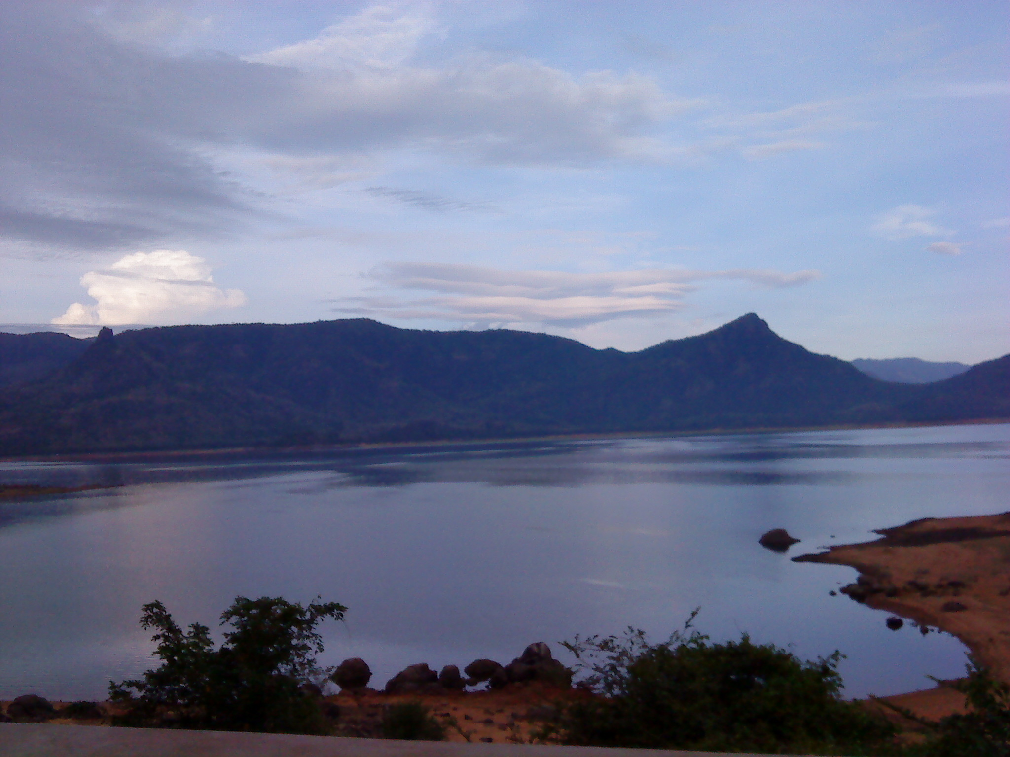 View of Manimuthar Dam, AmbasamudramTaluka, Tirunelveli District